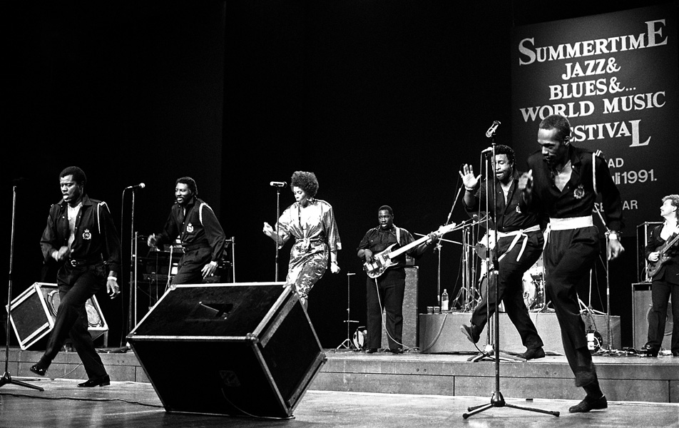 The Temptations playing in July 1991 at the Summertime Jazz, Blues & World Music Festival in Belgrade, Yugoslavia (now Serbia). "Sava Centar" venue.